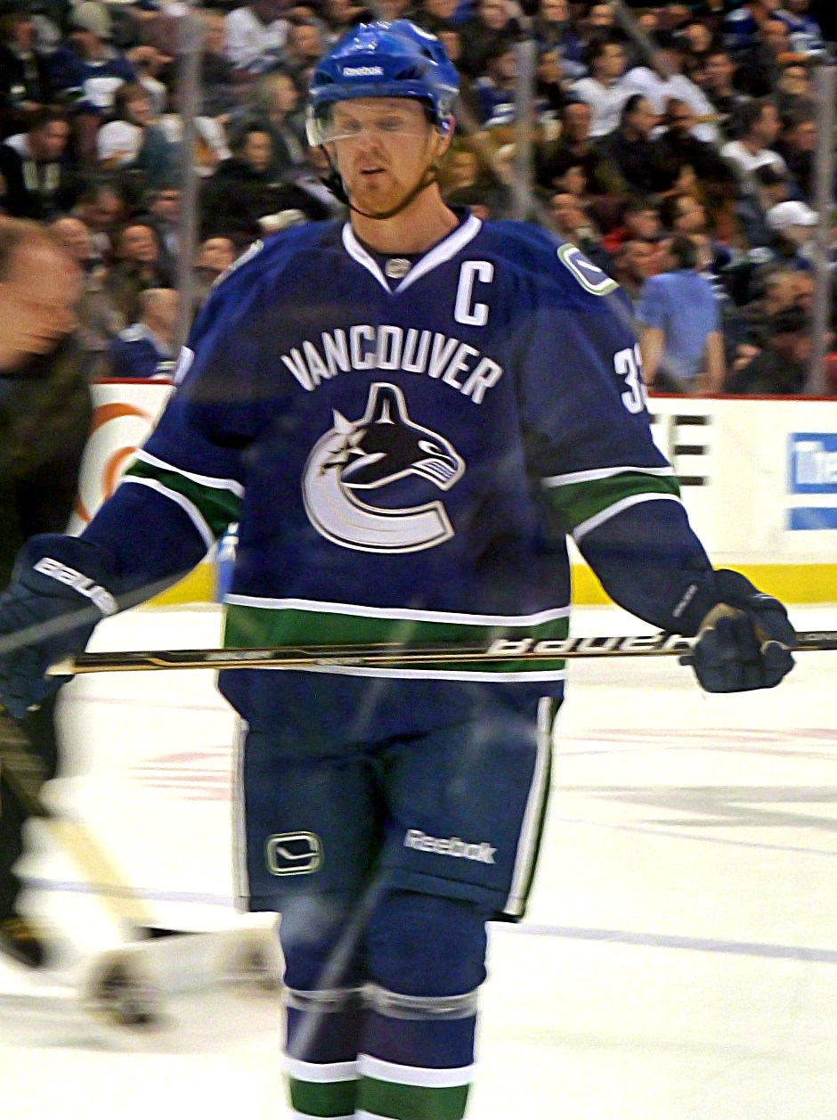 Vancouver Canucks captain Henrik Sedin during a game against the Colorado Avalanche on March 16, 2011.